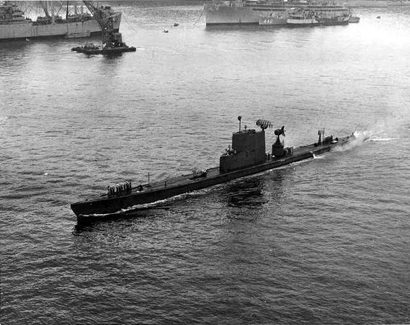 USS_Raton; Raton (SSR-270) as a Radar Picket submarine, circa 1953-60. USN Photo courtesy of .